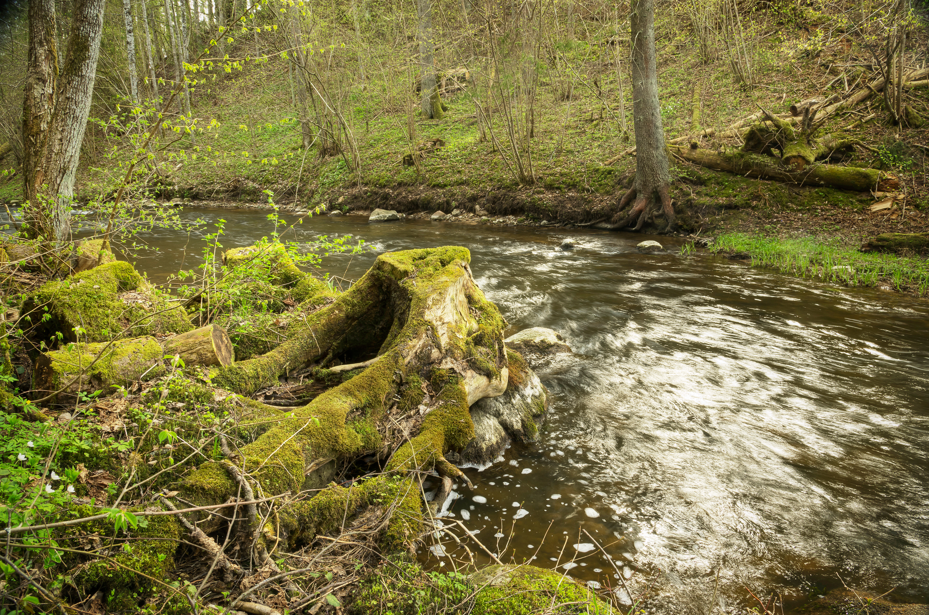 Väike Emajõgi river at Otepää Nature Park, Märdi village